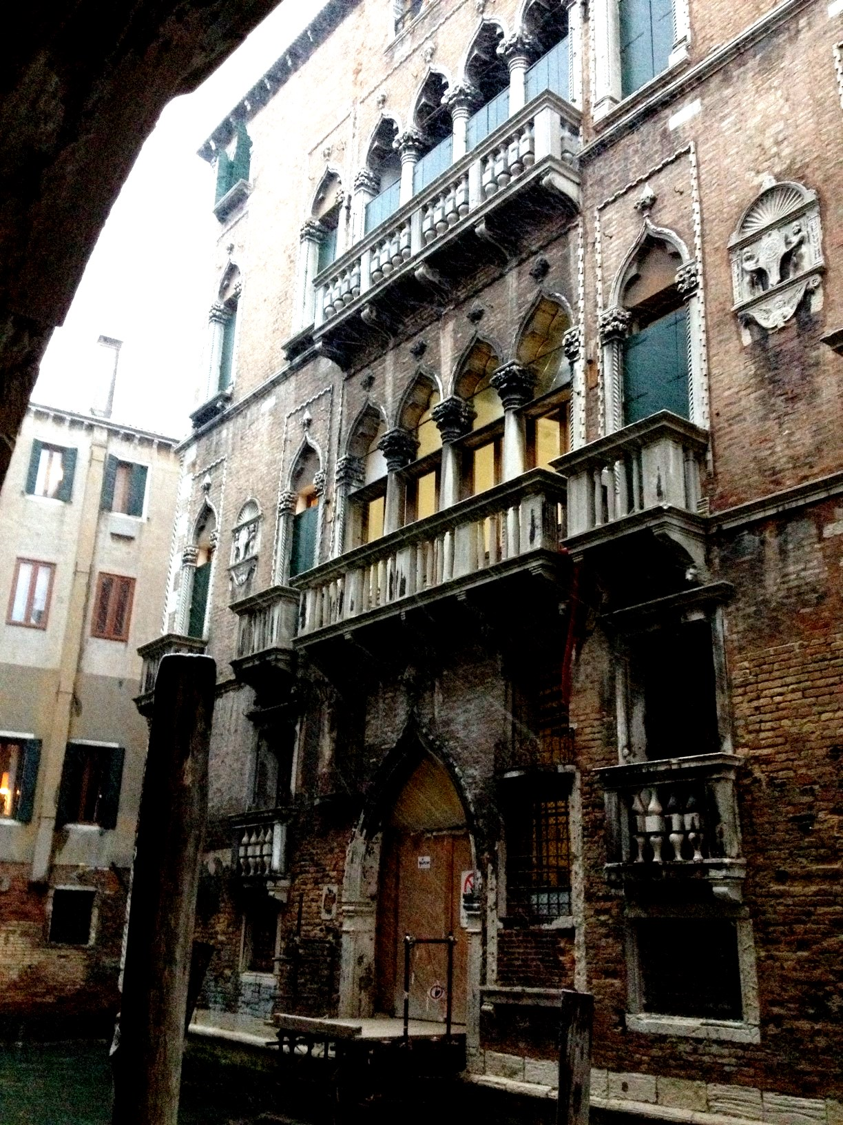 View of the Palazzo Molin del Cuoridoro's facade